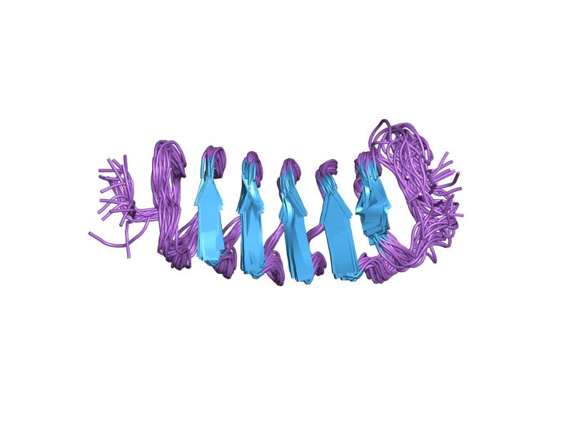 Cartoon representation of the molecular structure of protein registered with 1l1i code.